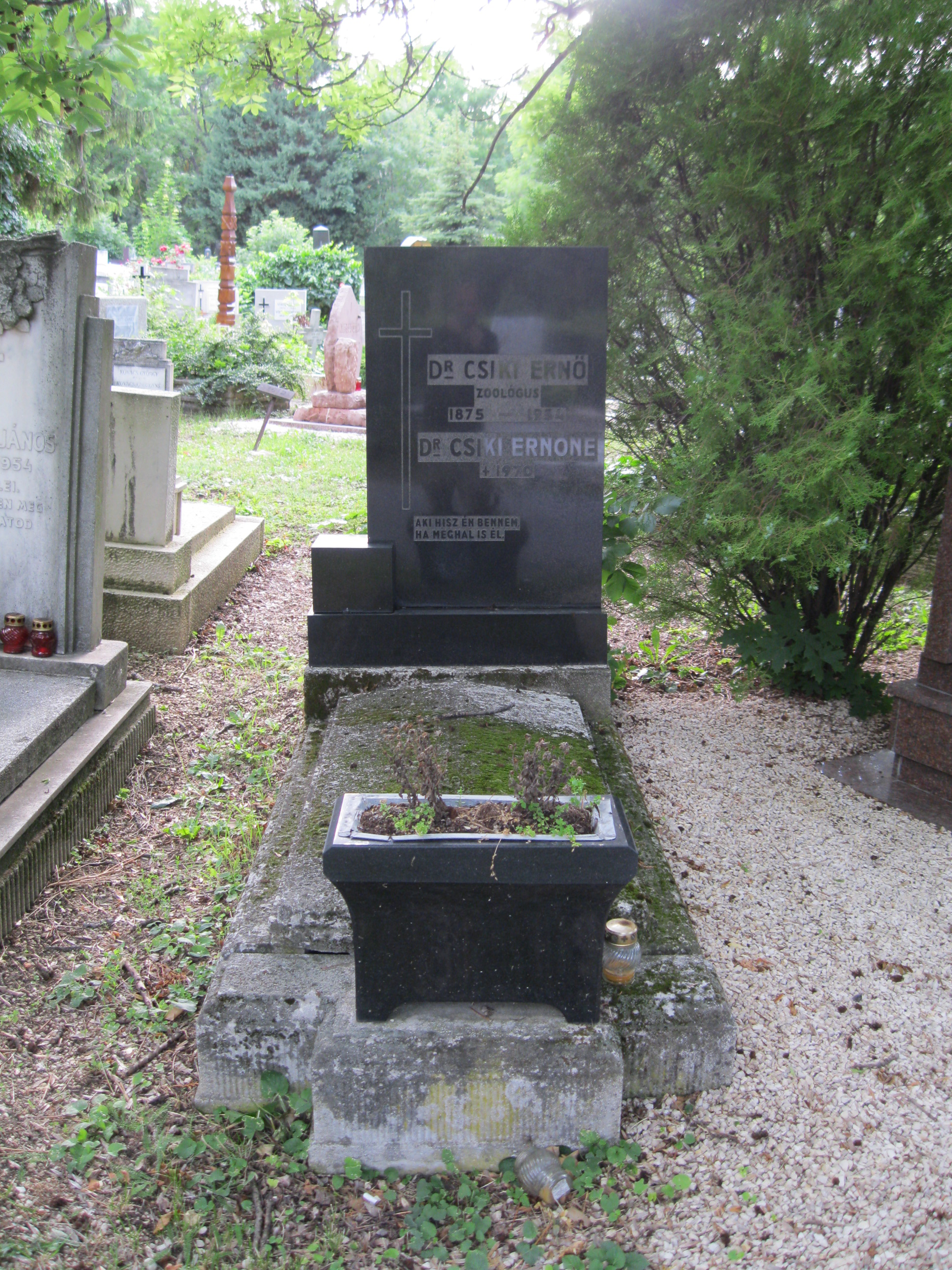 Tomb of Ernő Csiki in Budapest. Farkasréti Cemetery: 36/1